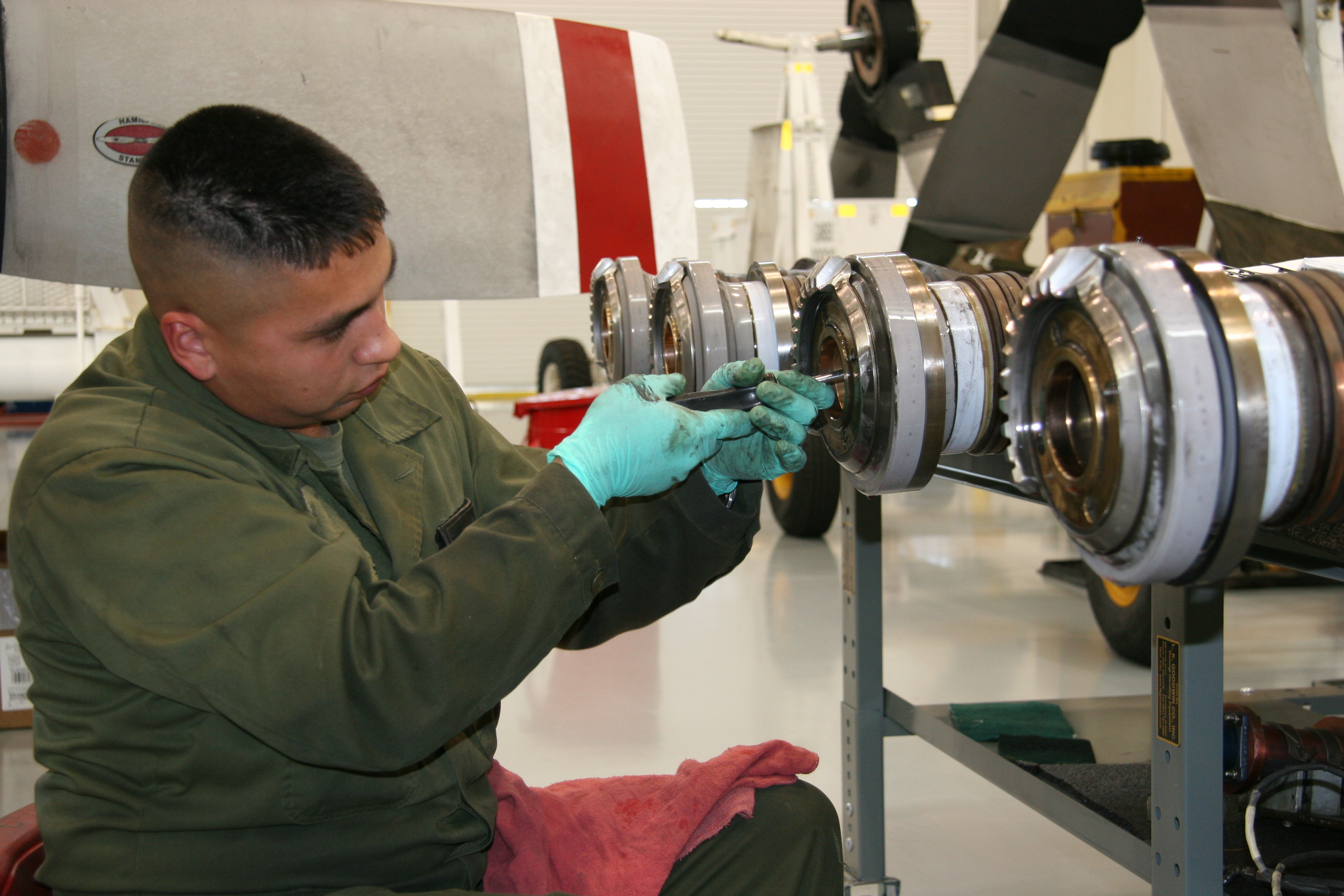 San Antonio native Cpl. Miguel Valdez, a T-56 power plants mechanic for Marine Aviation Logistics Squadron 41, Marine Aircraft Group 41, cleans the inner blade shank of a KC-130T Hercules propeller in preparation for an inspection to insure there are no cracks that would create greater damage once the prop is back on the aircraft.